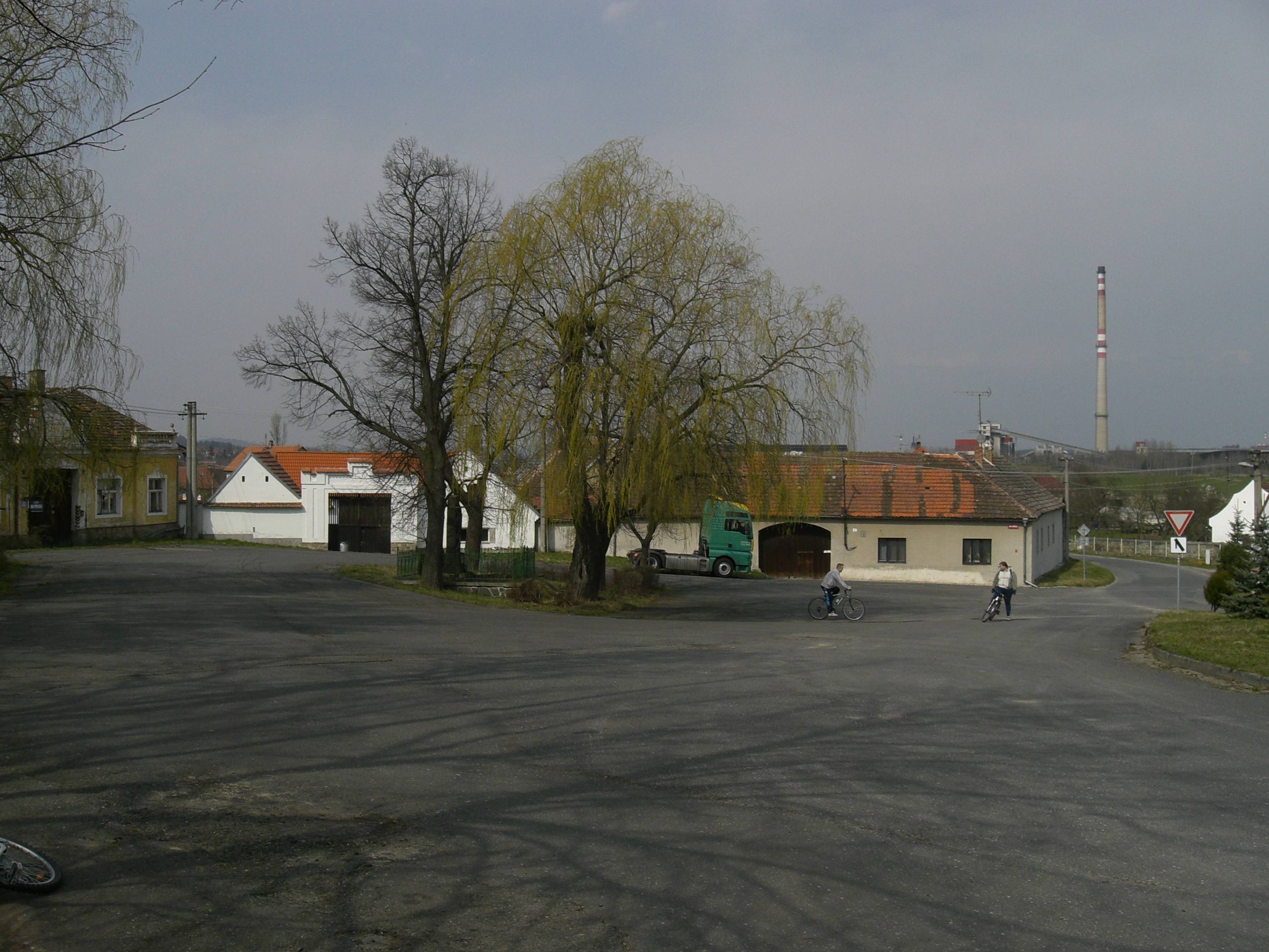 Village Smrkovice - part of Písek town, Czech Republic. Villages square